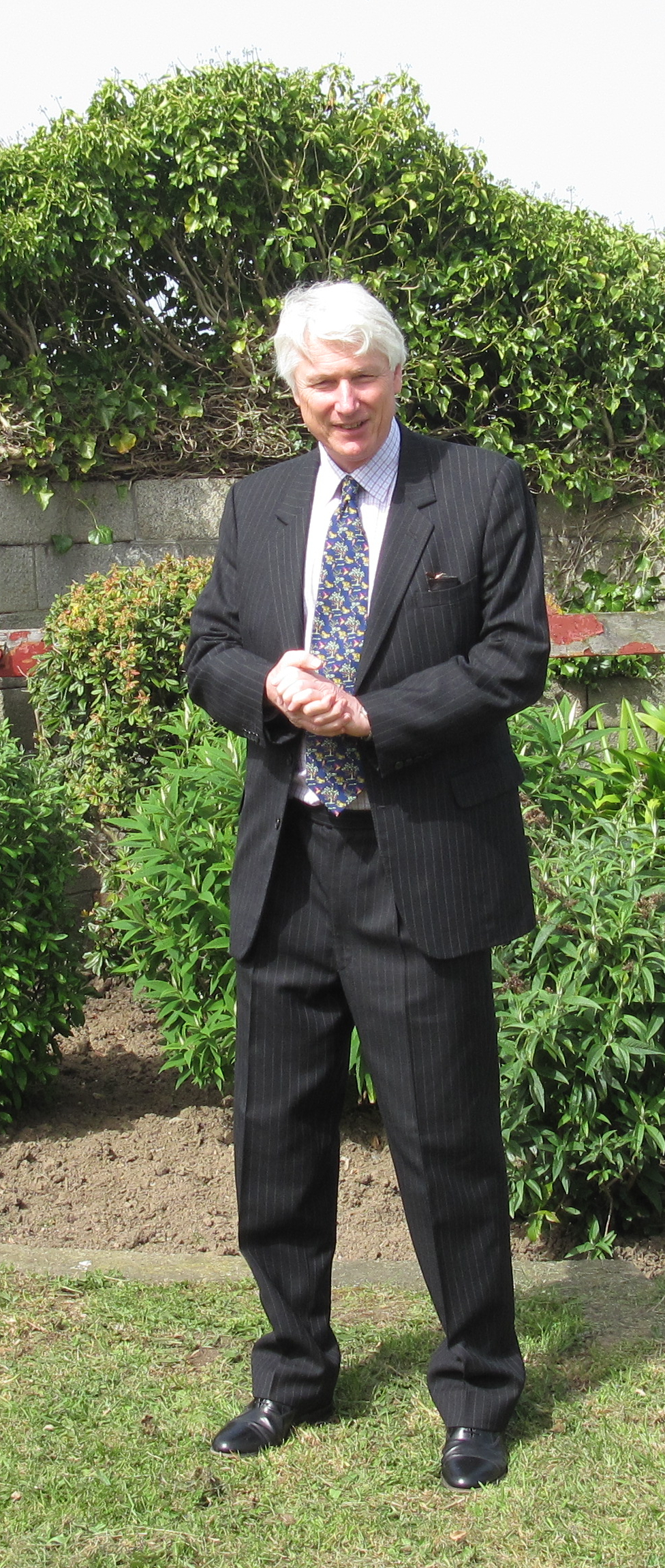 The modern version of the Jersey flag came into use on 7 April 1981. To mark the 30th anniversary a flag hoisting ceremony was held at Fort Regent on 7 April 2011. The Bailiff of Jersey gave a speech and raised the flag.